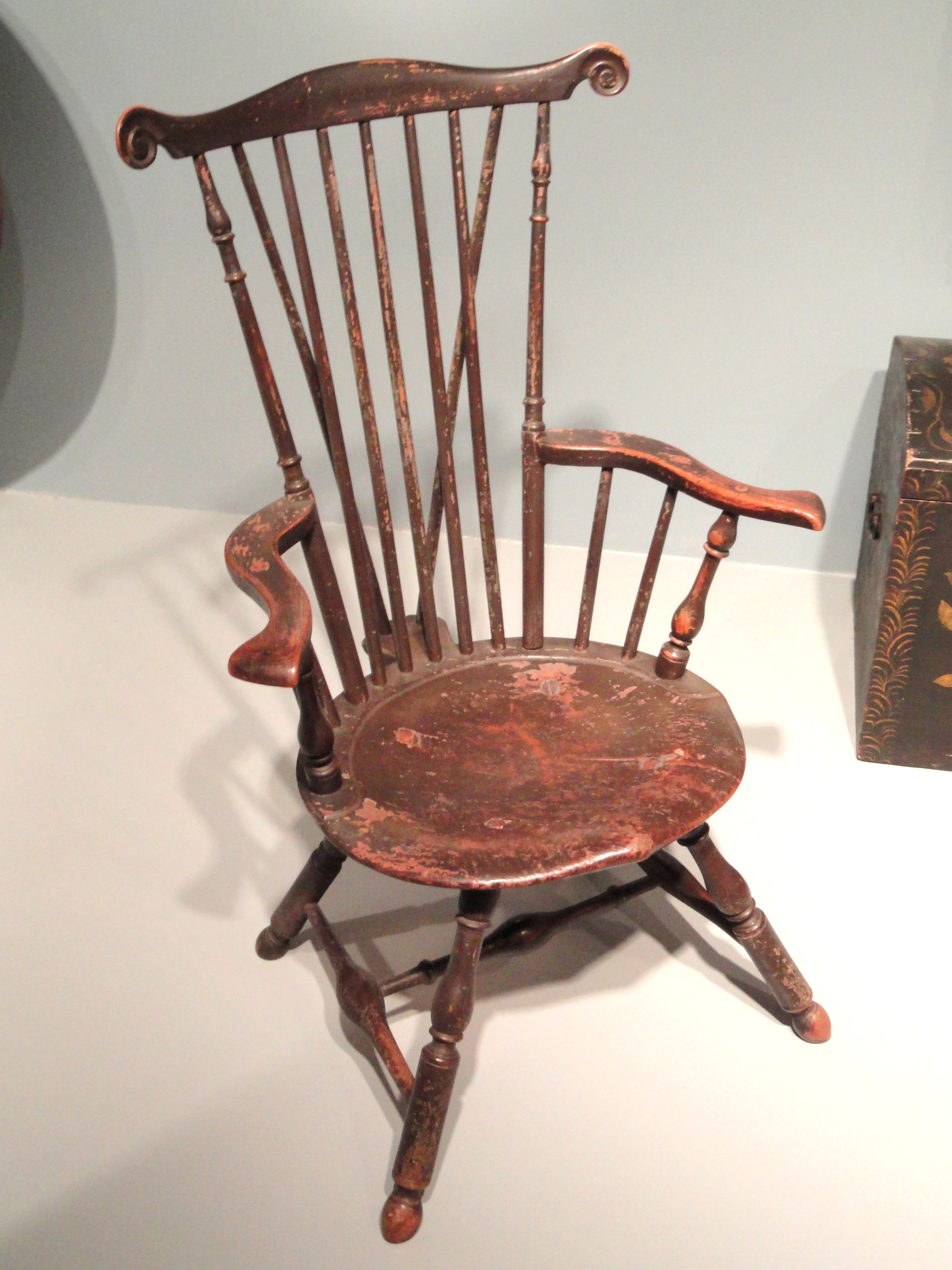 Exhibit in the Art Institute of Chicago, Chicago, Illinois, USA. This artwork is in the public domain because the artist died more than 70 years ago.